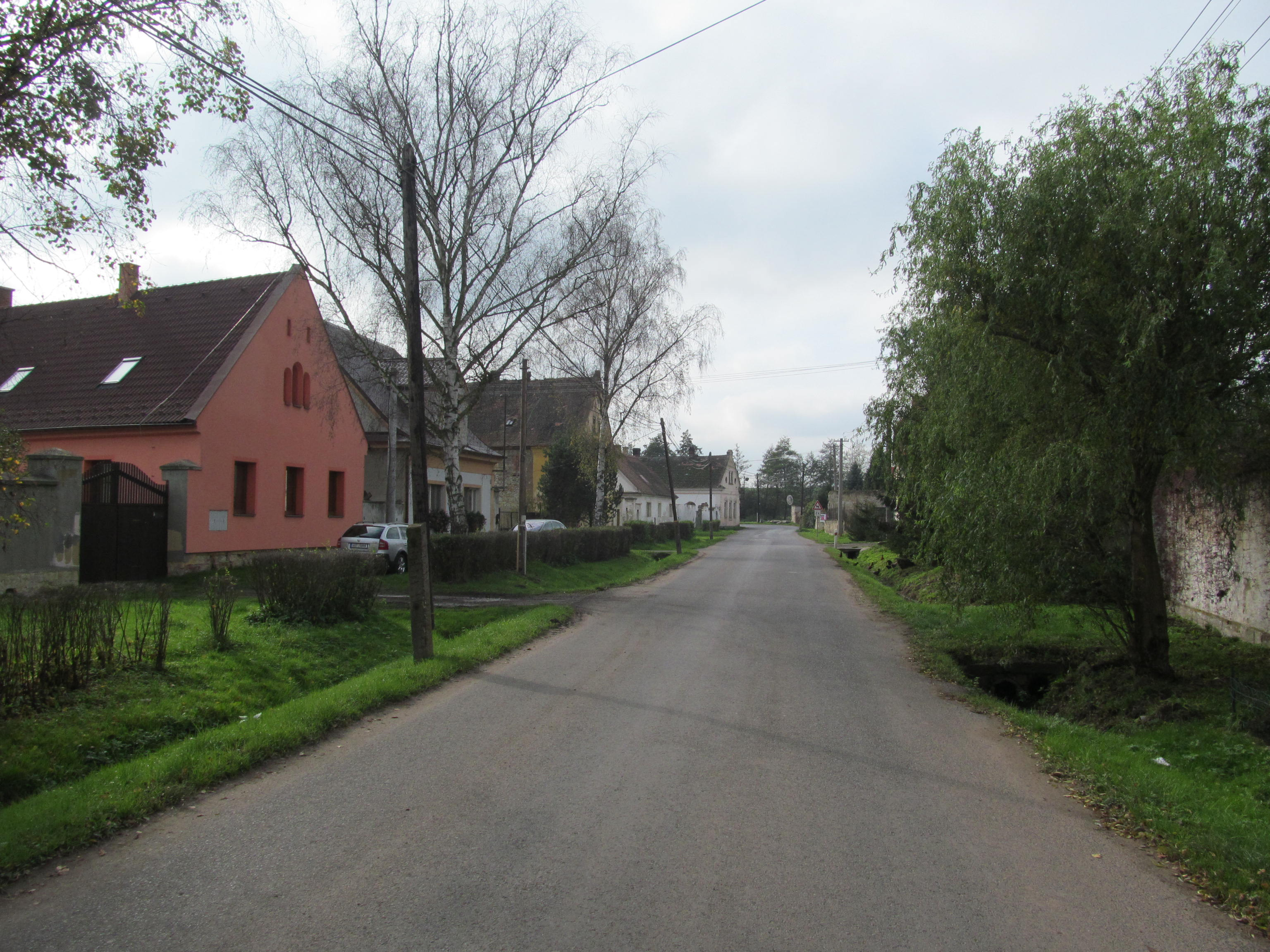 Main street in Kluček